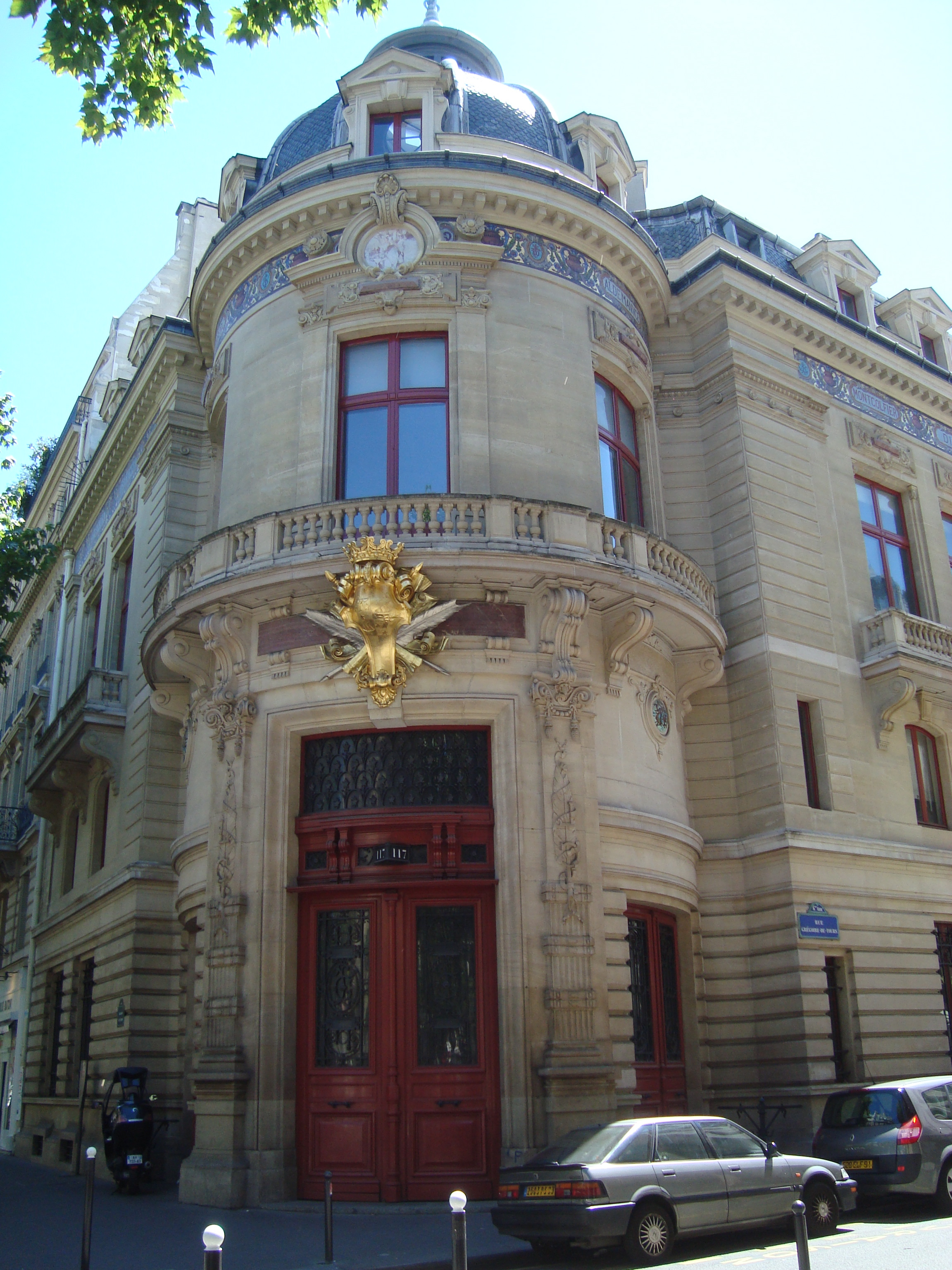 The Cercle de la Librairie (built in 1879 by the architect Charles Garnier) at boulevard Saint-Germain in Paris